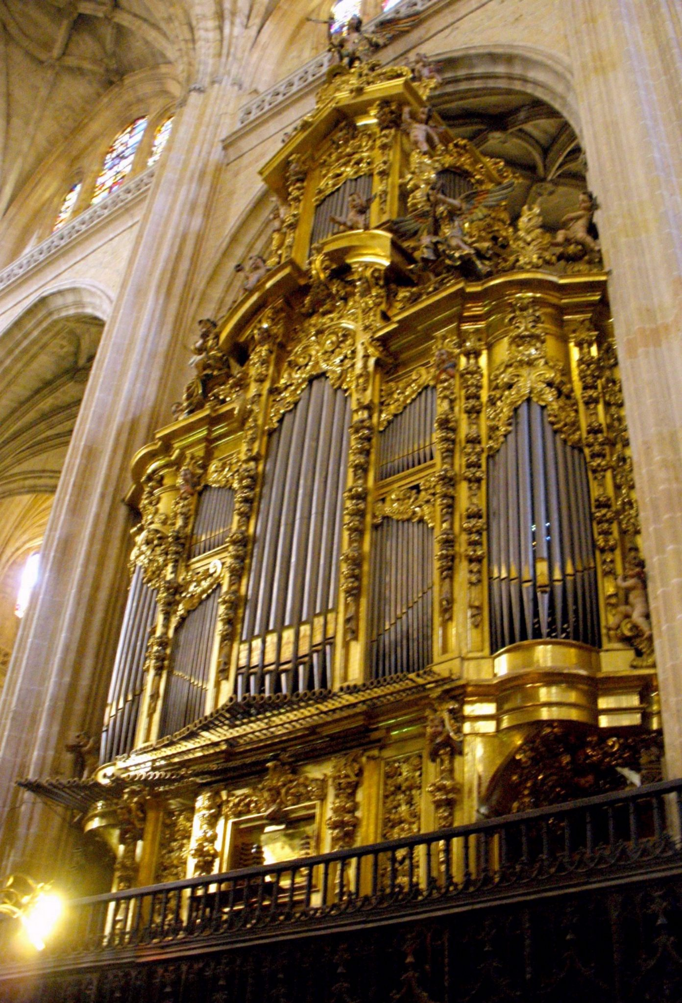 Órgano en la Catedral de Segovia. Segovia Cathedral Native nameCatedral de Santa María de SegoviaLocationSegovia , (Spain)Coordinates40° 57′ 00.65″ N, 4° 07′ 32.24″ W EstablishedMiddle AgeWeb page control : Q1499912 VIAF: 151939123 ISNI: 0000 0001 0672 8869 LCCN: n81124924 NLA: 36562756 BIC: RI-51-0000862 WorldCat institution QS:P195,Q1499912